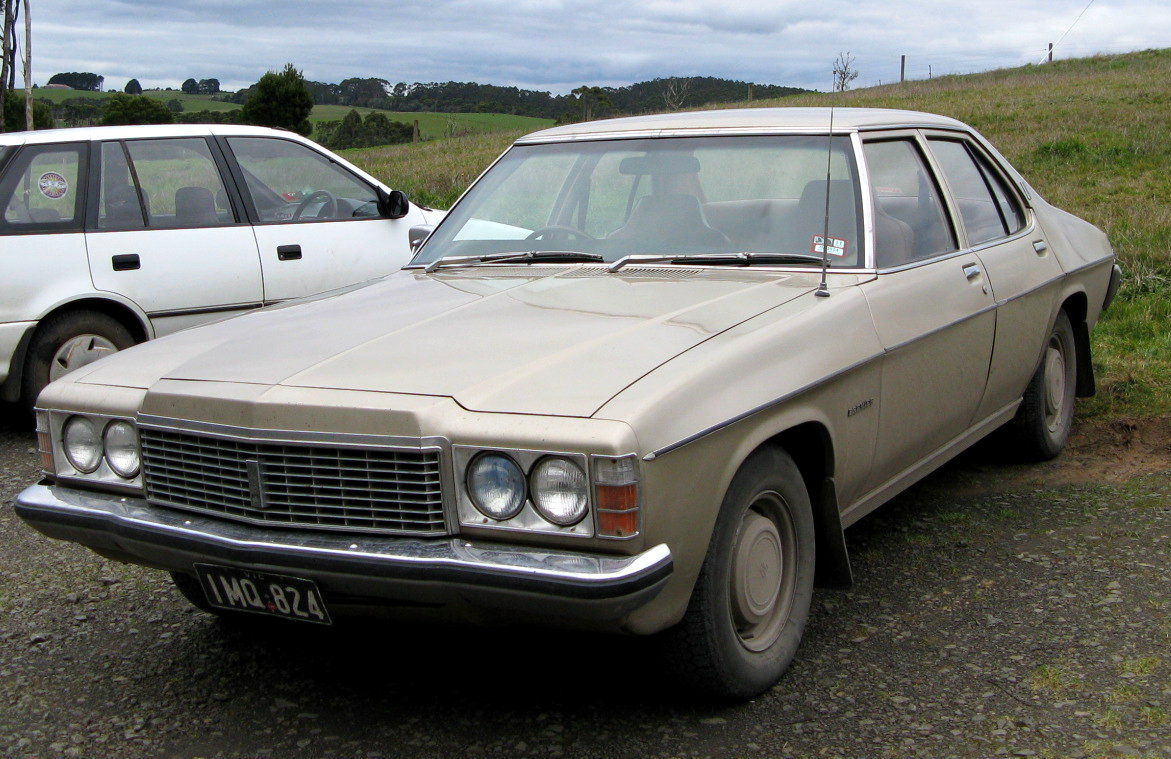 1974–1976 Holden HJ Premier sedan, photographed in the Otway National Park, Victoria, Australia.